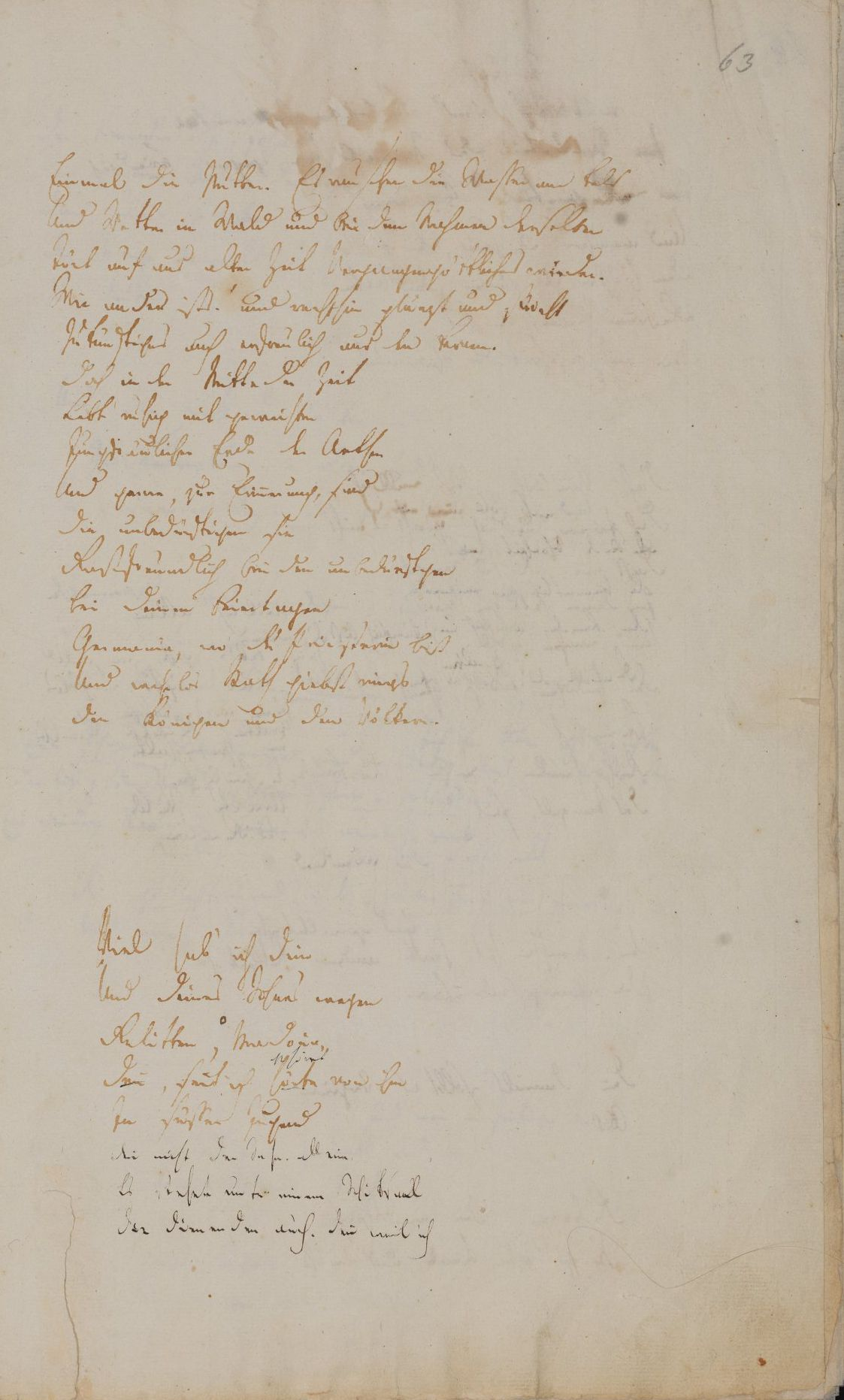 Manuscript by Friedrich Hölderlin "An die Madonna" page 1